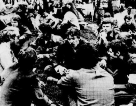 Don Sutherland talks with GIs in San Diego Balboa Park May 1971 between performances of the FTA Show